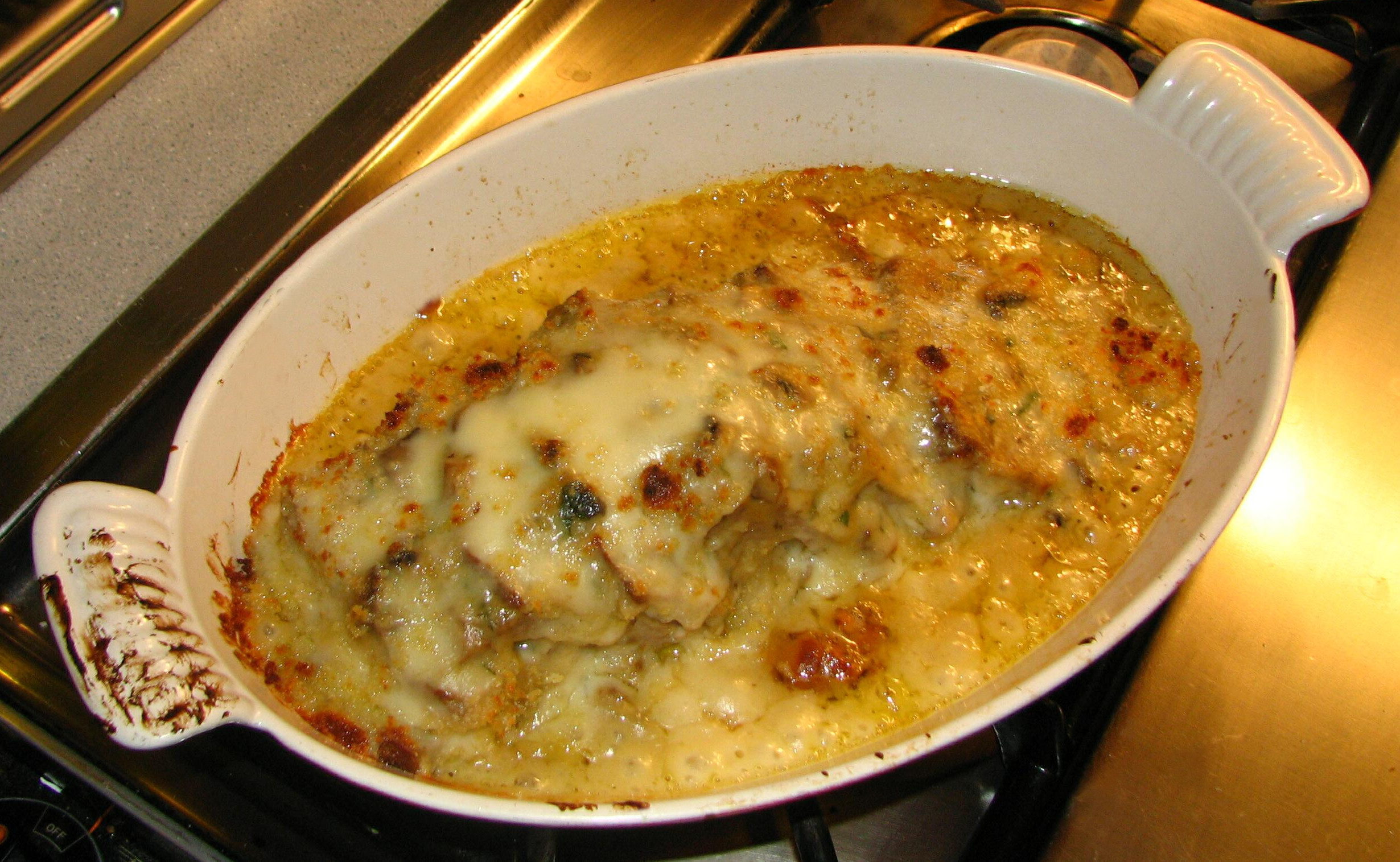 Homemade Veal Orloff